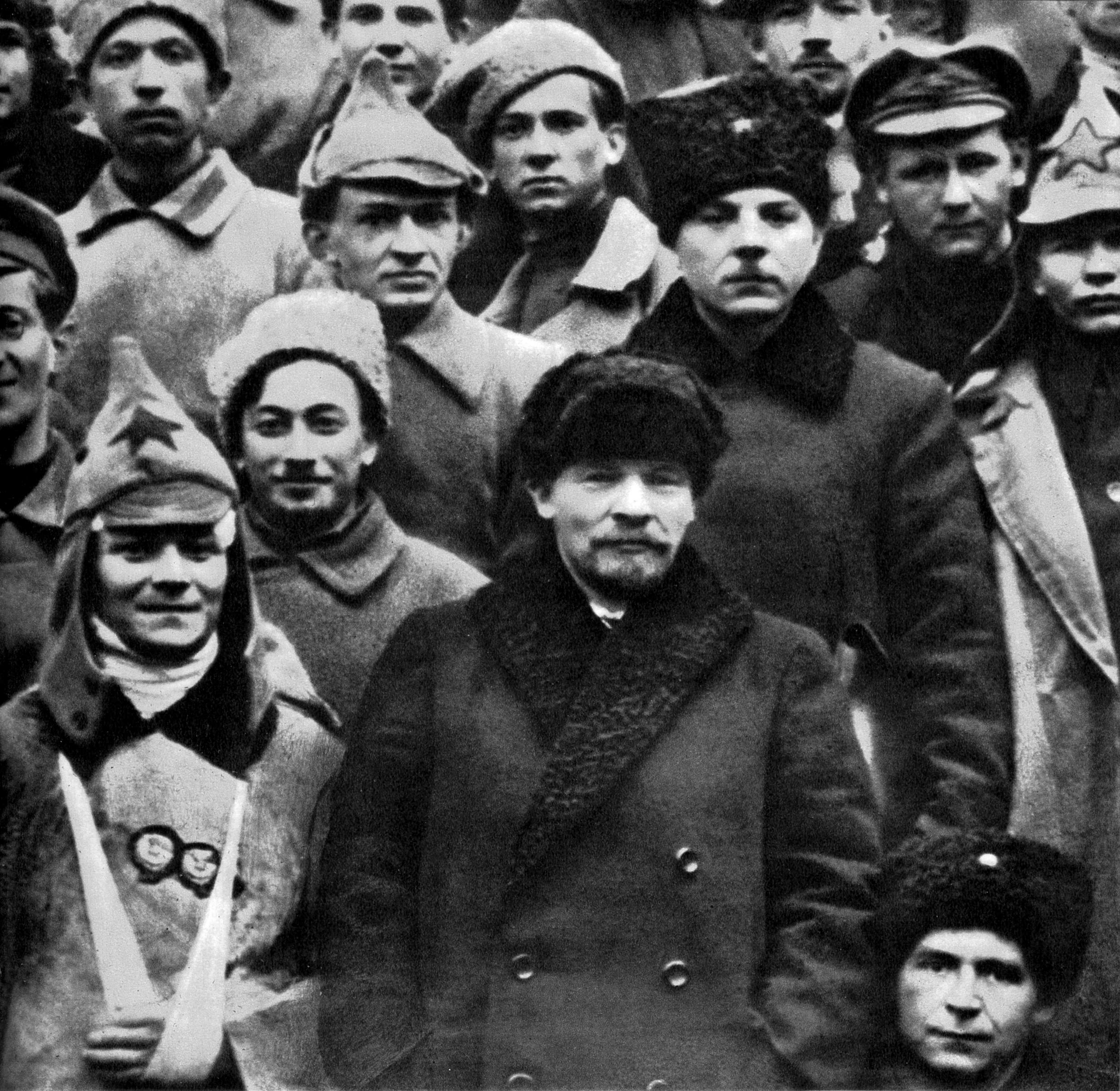 (Translated from the Russian): Lenin and Voroshilov among delegates of the X Congress (1921, Moscow).